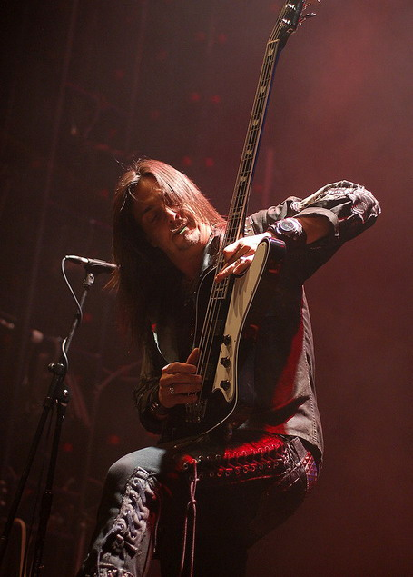 WASP' concert at Moscow, Russia (Mike Duda)